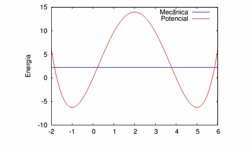 graph